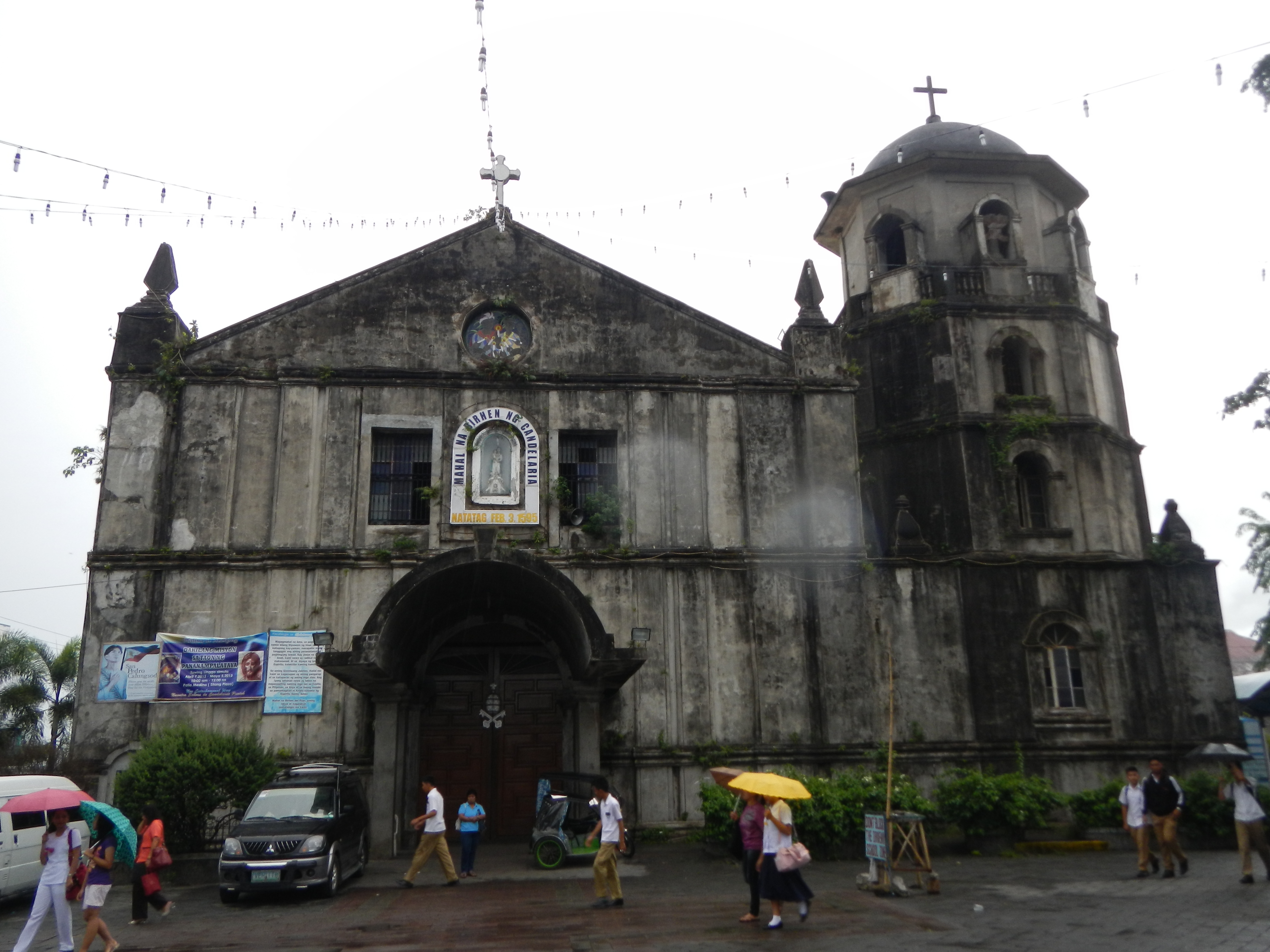 1595 Our Lady of Candelaria Parish Church of Silang –Nuestra Senora de Candelaria Church - Poblacion, Silang Proper (Jubilee Church) Silang, Cavite[1] - belongs to the Roman Catholic Diocese of Imus[2] Vicariate of Our Lady of Candelaria, Vicar Forane: Rev Fr. Ariel A. delos Reyes, Vicarial Representative: Rev. Fr. Isagani P. Aviñante District 5 District Coordinator: Rev. Fr. Agustin M. Baas [3] [4] The Church was first built by the Franciscans in 1585. Nuestra Senora de la Candelaria image was found in a mountain side in 1640 and disappeared nine times over the next few years.[5] Coordinates: 14°13'26"N 120°58'27"E Virgin of Candelaria[6] The Virgin of Candelaria or Our Lady of Candelaria (Virgen de Candelaria, Nuestra Señora de la Candelaria), popularly called La Morenita, celebrates an apparition of the Virgin Mary on the island of Tenerife, one of the Canary Islands (Spain).